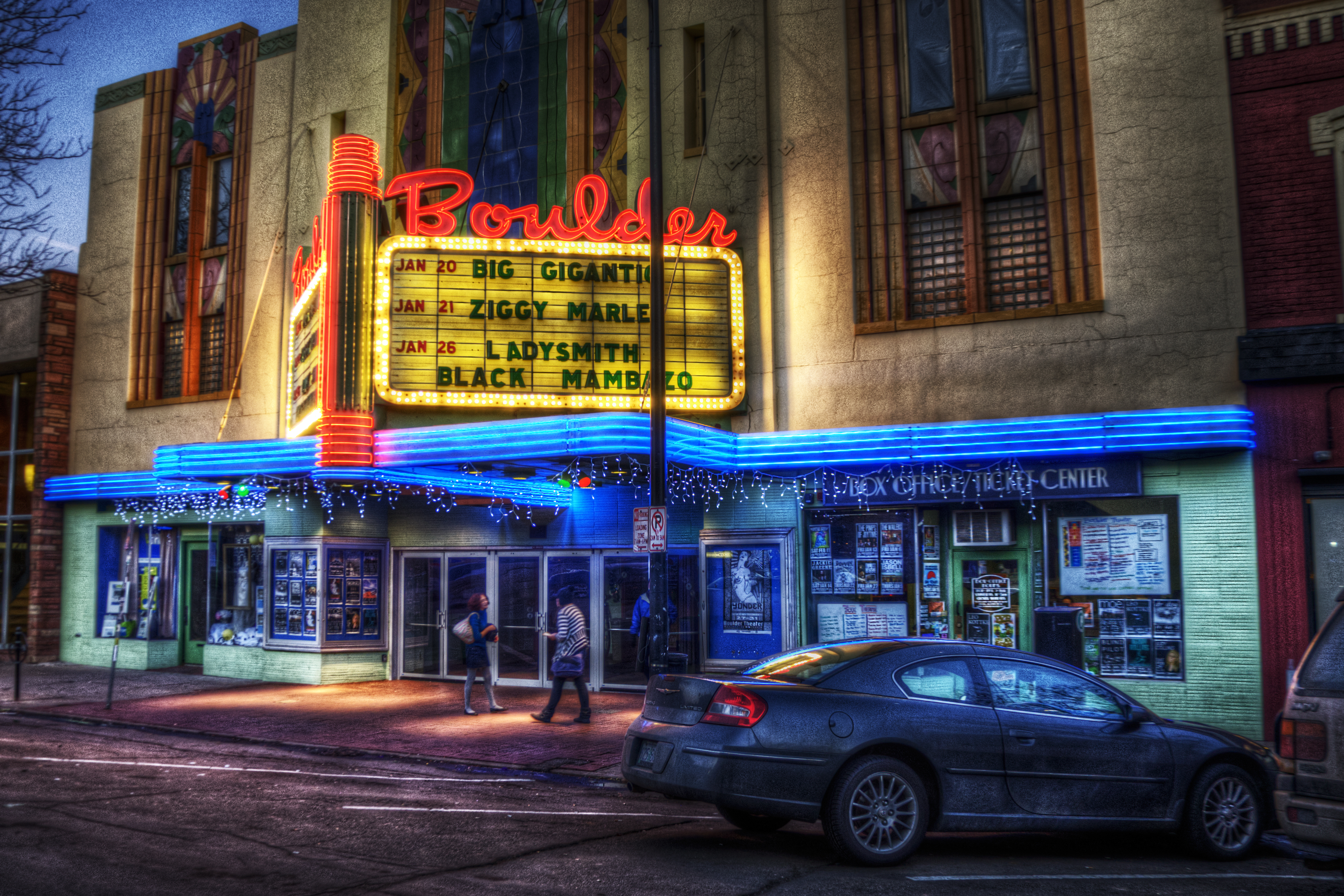 ボルダーの劇場 2012年01月02日、昨日のブログに投稿した裁判所のすぐ横にあるボルダーの劇場。 劇や映画、ライブ、コンサートなどが行われる。写真では既に人が少なく見えますが、実際はもっと少ないです。大学町なので大学が長期休暇に入ると人が激減。 この時ばかりは住民たちはつかの間の静寂を楽しみます。 Boulder Theater 01/02/2012, Boulder Theater, Colorado This street seems very quiet, but it is because Boulder is a college town and the university was in a winter break. Everybody enjoys the temporal tranquility until students' return.